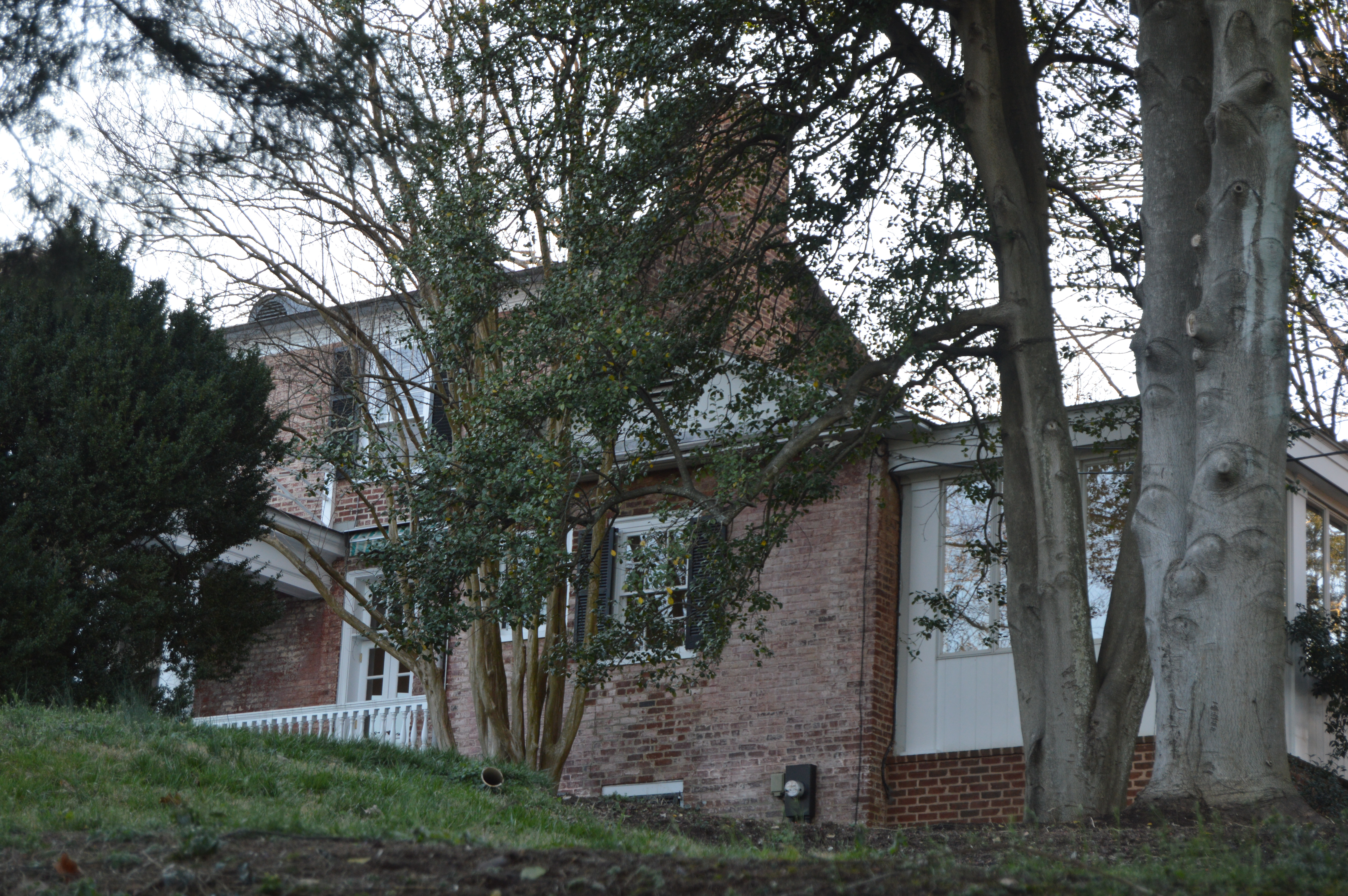 Eastern front of Montebello, located at 1700 Stadium Road (here seen from Montebello Circle) in Charlottesville, Virginia, United States. Built in 1819, it is listed on the National Register of Historic Places.